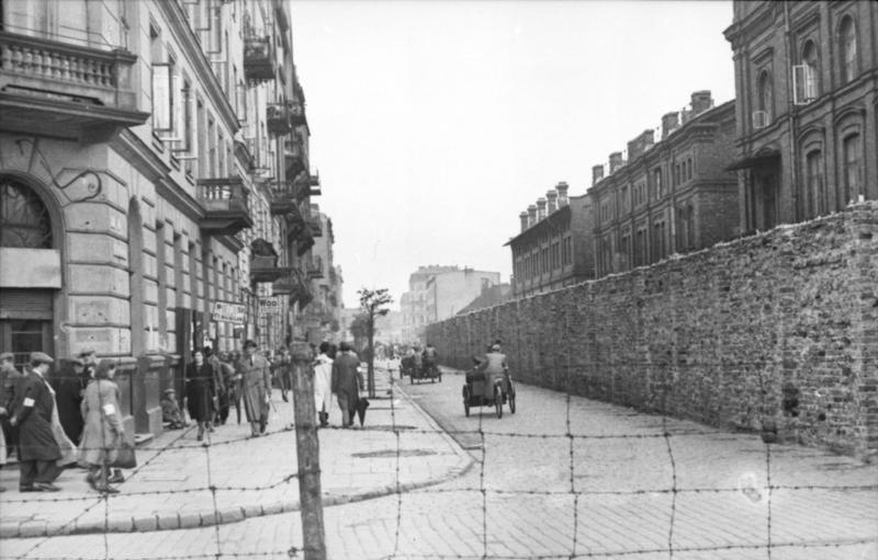 Warsaw Ghetto: View on Grzybowska street from gate at Żelazna street, looking East from polish side into the getto.